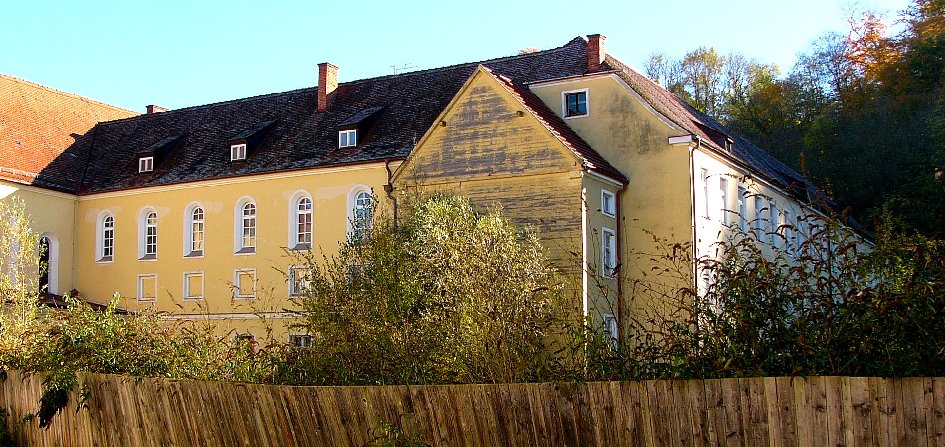 This is a photograph of an architectural monument.